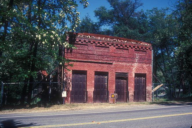 ROBERT BELL'S STORE FROM 1855; GENERAL MERCHANDISE STORE AND POST OFFICE FOR MANY YEARS; LOCATED IN COLOMA. THIS IS INCLUDED IN MARSHAL GOLD DISCOVERY STATE HISTORICAL PARK